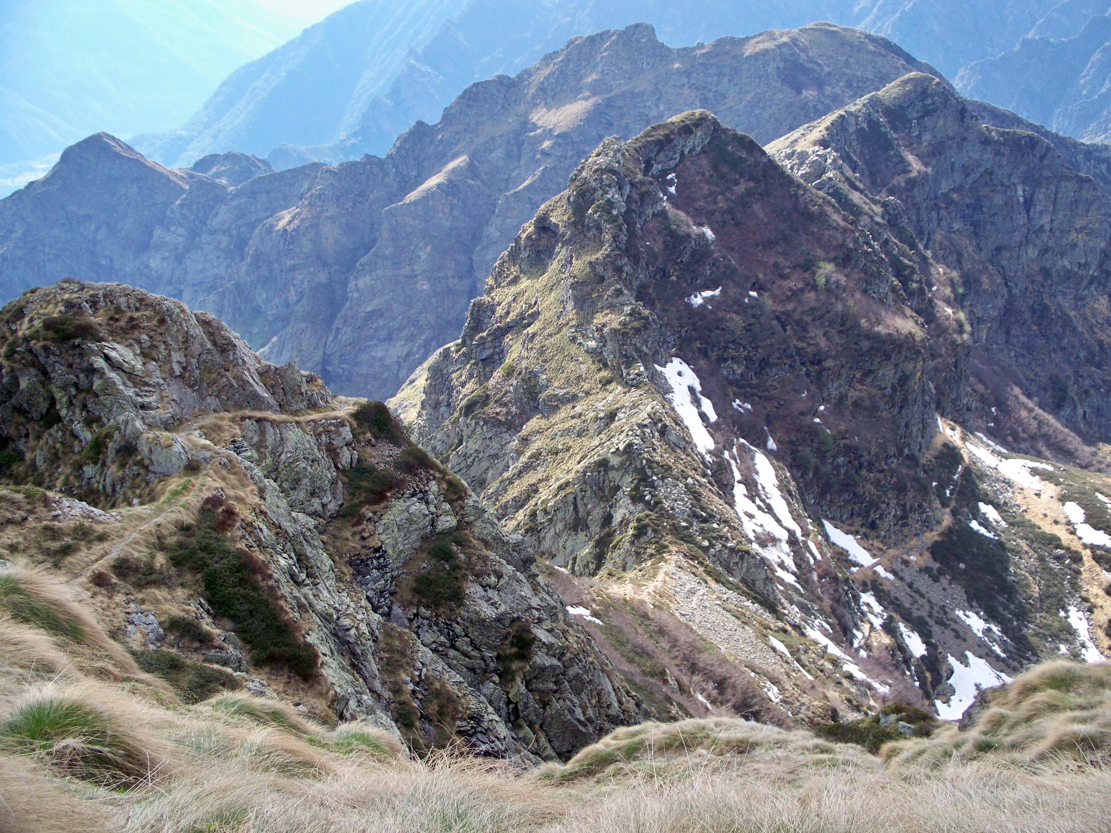 foot path to the 2098 m high Pizzo Proman in Valgrande/Piemont/Italy seen from near the peak.